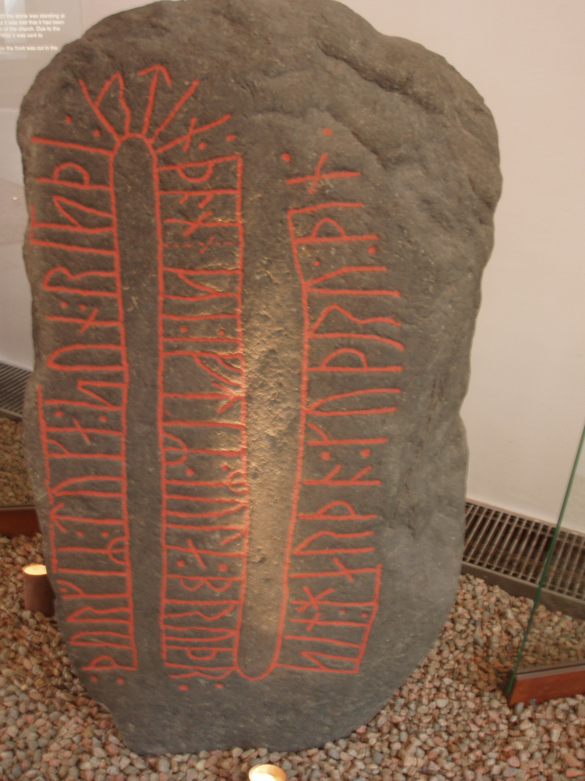 The Asferg runestone found in Asferg, eastern Jutland, Denmark. Located in the National Museum of Copenhagen.